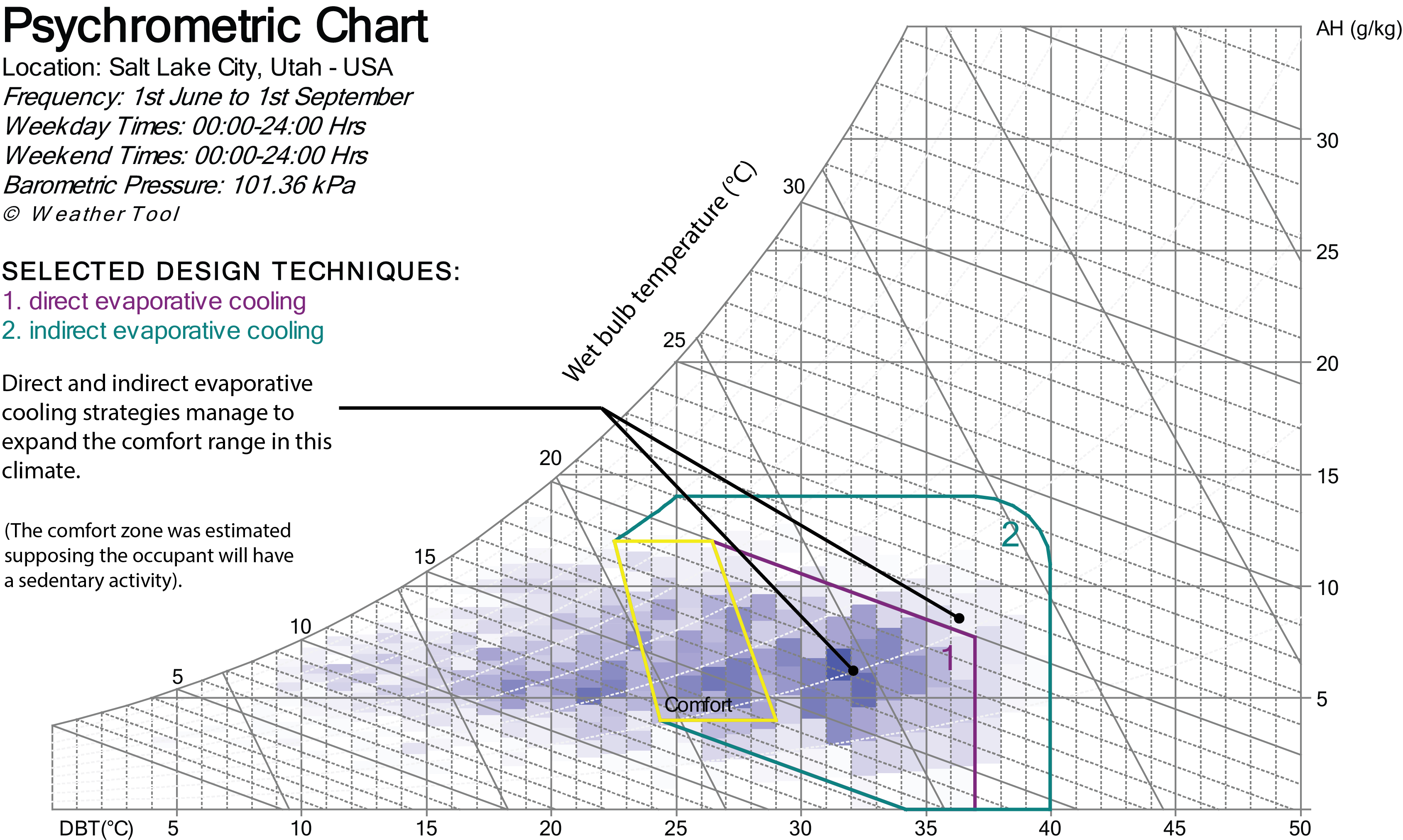 Psychrometric chart example of Salt Lake City from Autodesk Ecotect. The blue cells represent distribution of typical annual climate. Acceptable climate conditions for direct and indirect evaporative cooling are outlined in green and purple, respectively.